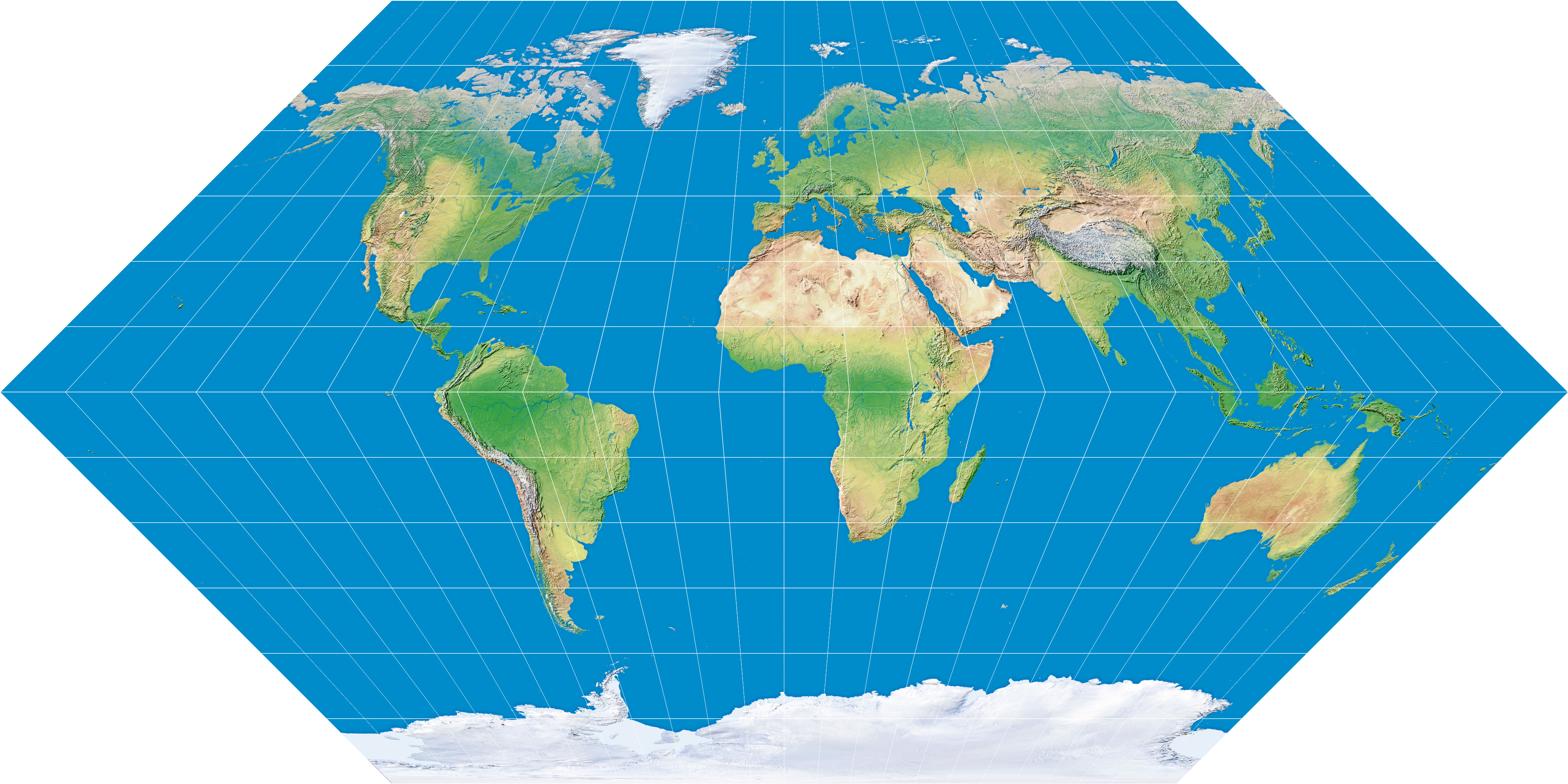 The world on Eckert I projection. 15° graticule. Imagery is a derivative of "Natural Earth II with blue oceans" by Tom Patterson with changed colors. Image created with Flex Projector.